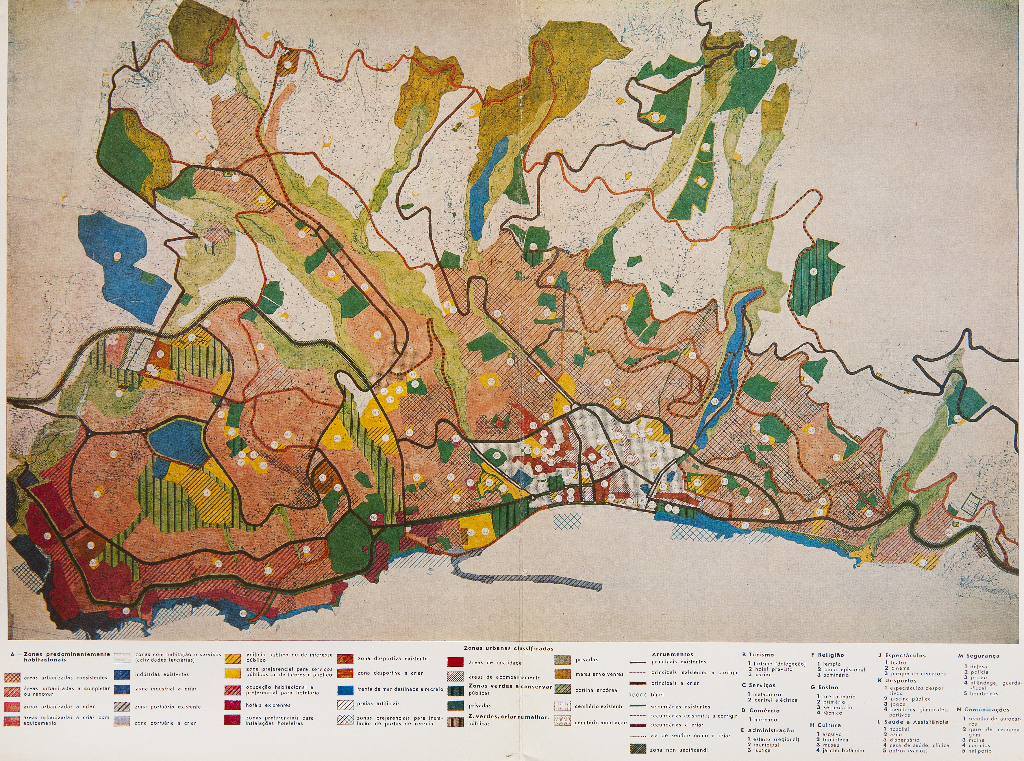 Funchal City Plan, Madeira Island, 1969; Arch. José Rafael Botelho